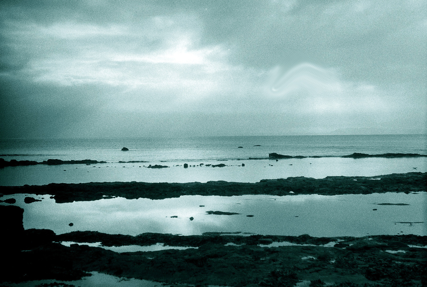 Fed1 (Russian made Leica ii copy. Age unknown)... Ilford FP4 toned in photoshop. The original results from this camera were really quite bad. Lots of vignetting and grain. I felt the pictures needed something to lift them. Hence the toning in an attempt to replicate Lith printing